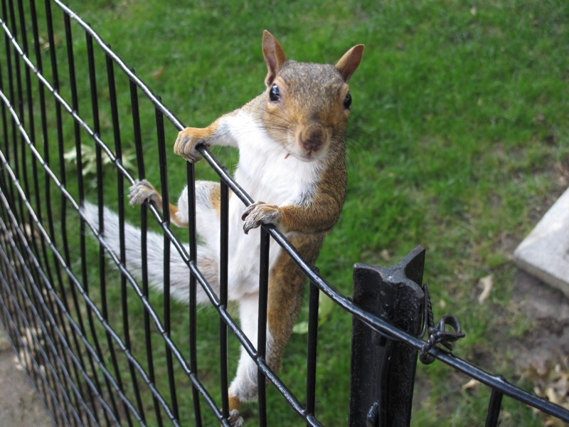 A New York squirrel, who is extremely desensitized to humans, begs for a treat. Distance from camera was less than 18".